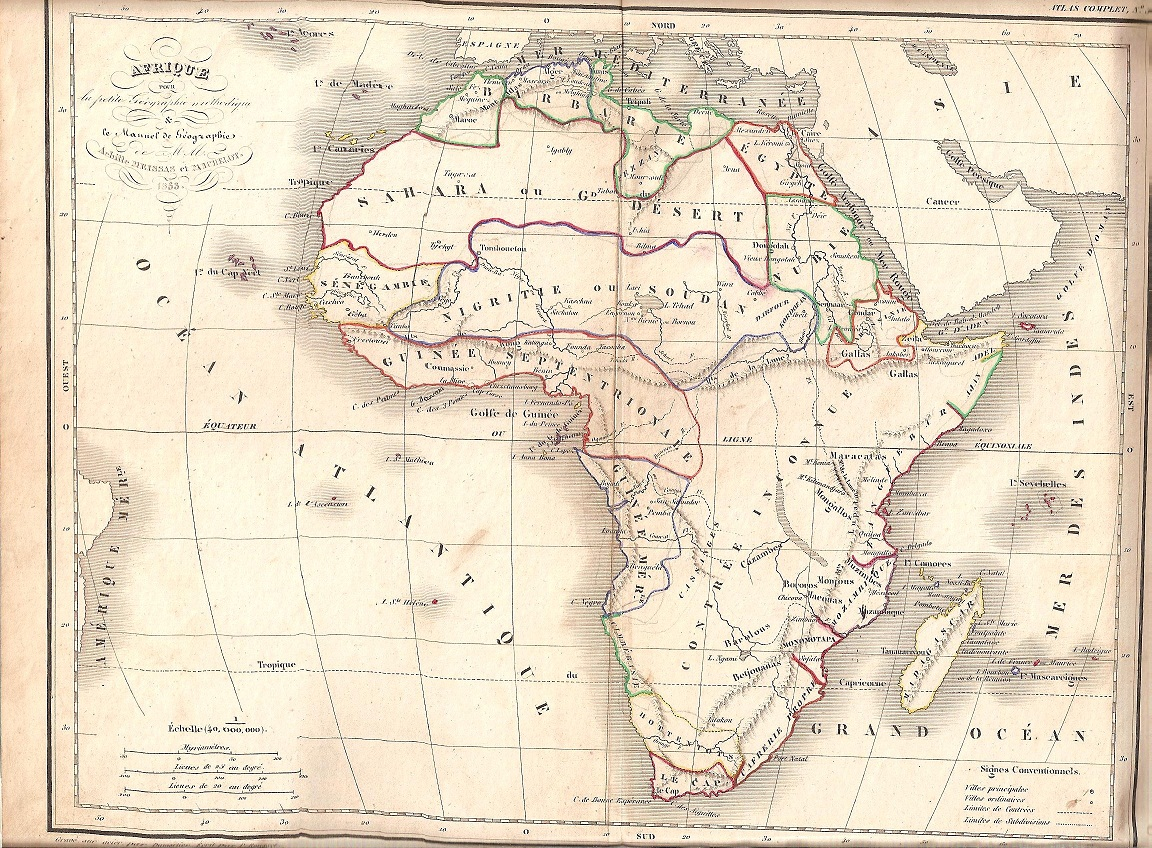 Africa map 1853